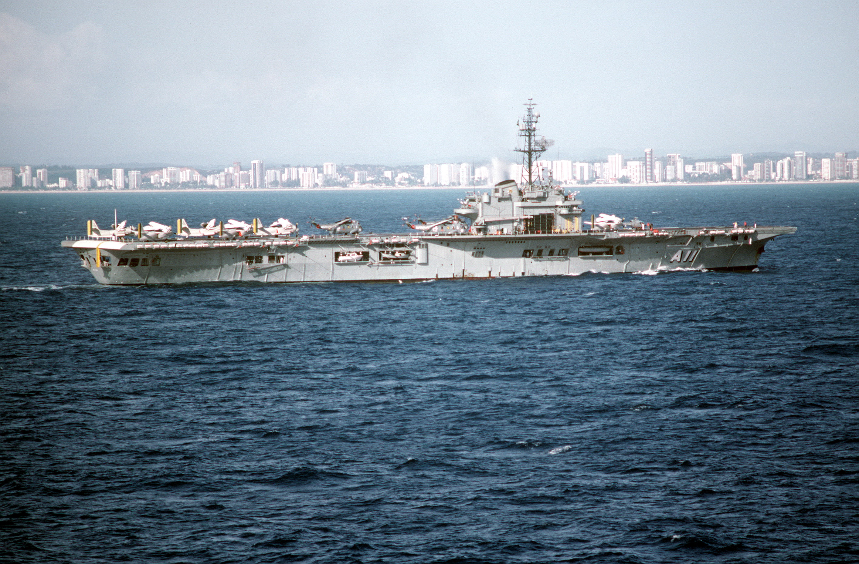 A starboard beam view of the Brazilian aircraft carrier MINAS GERAIS (A 11), seen against the harbor skyline during UNITAS XXV, the silver anniversary hemispheric naval exercise involving Brazil, Chile, Colombia, Ecuador, Peru, the United States, Uruguay and Venezuela.